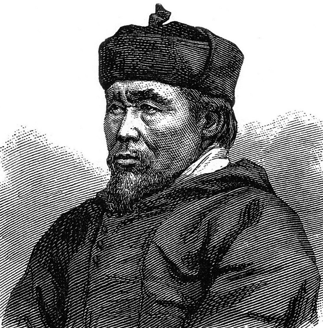 Hans Hendrik in 1883 by Ida Falander.